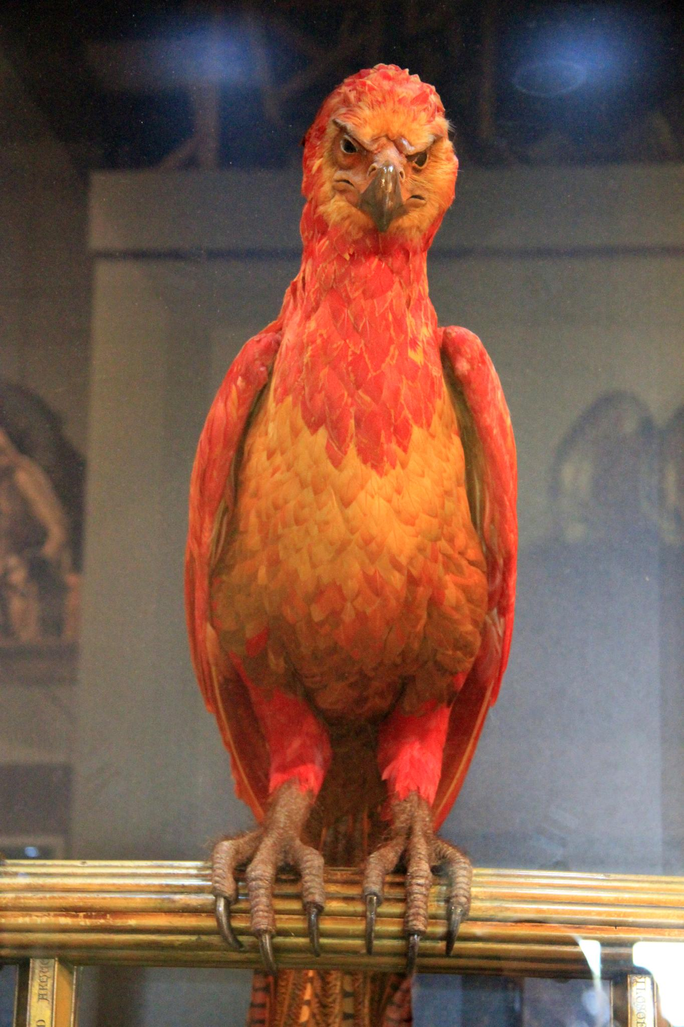 Warner Bros. Studio Tour London: The Making of Harry Potter.